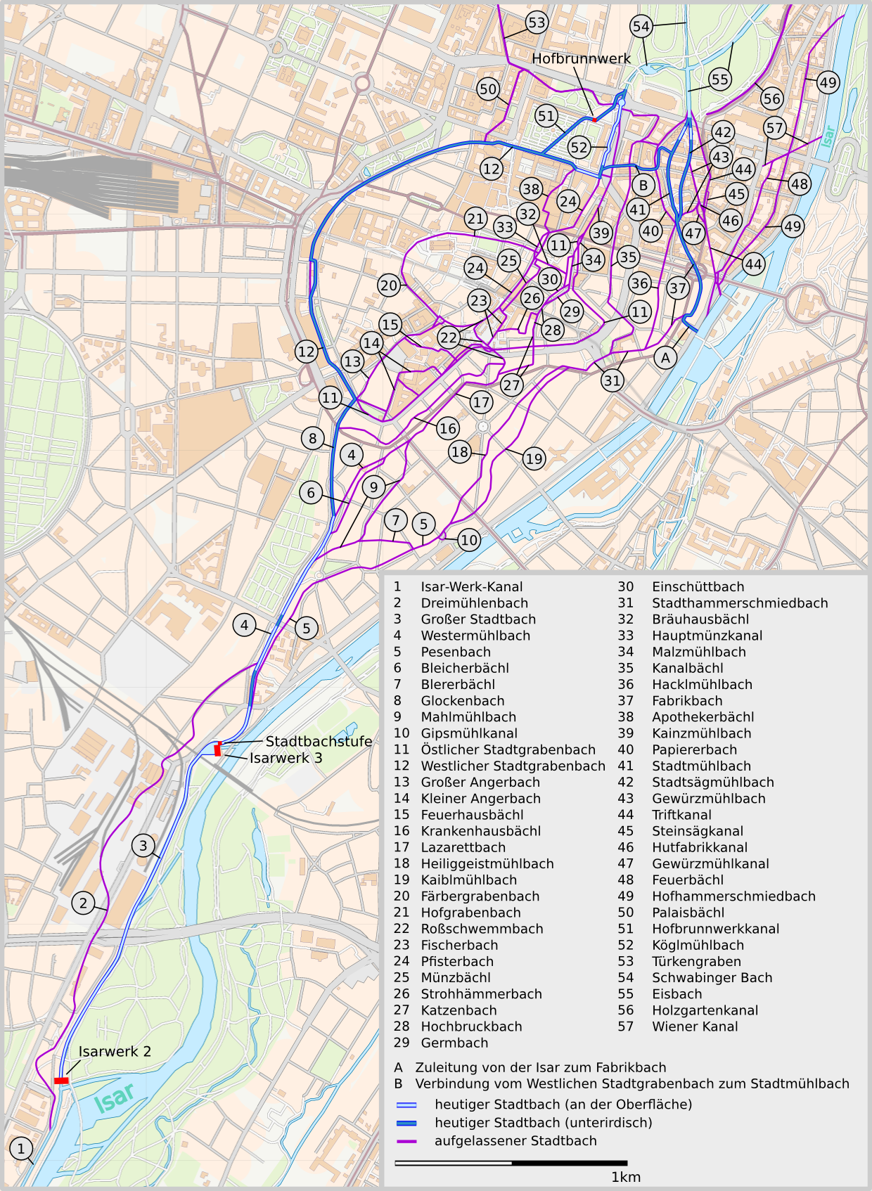 Map of existing and former town streams in Munich on the left side of river Isar